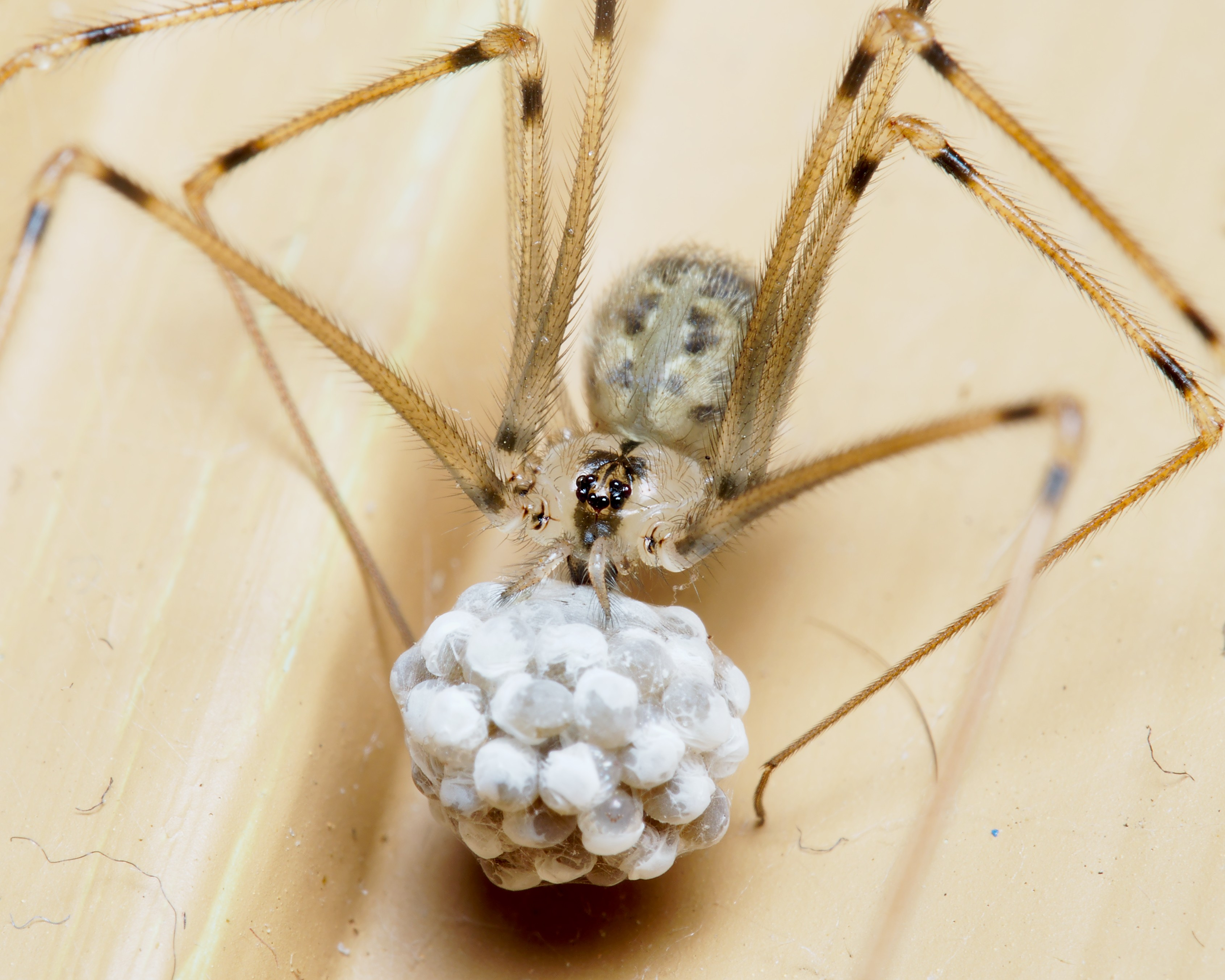 Psilochorus sp cellar spider with its eggs